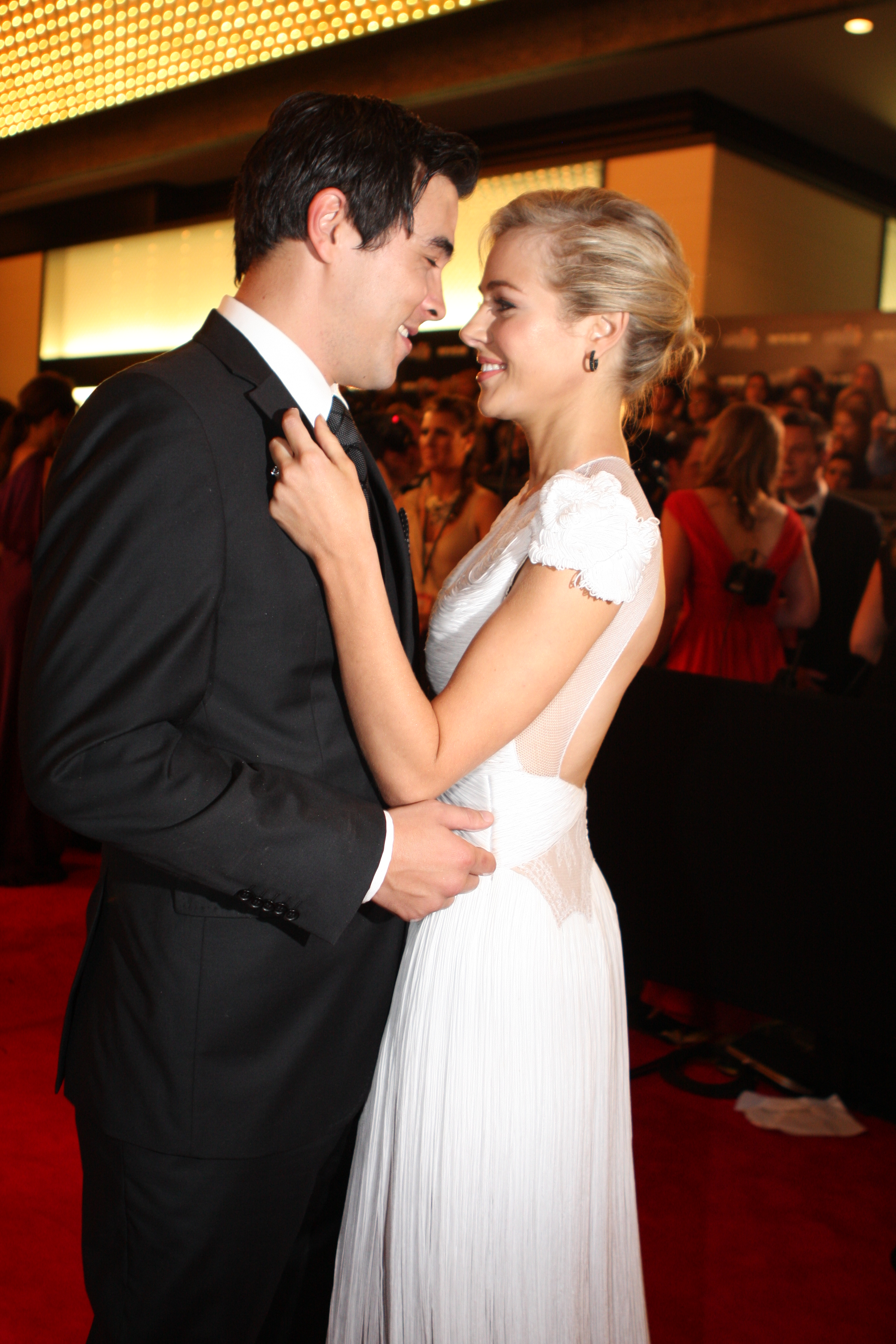 Jessica Marais and James Stewart at 2011 TV Week Logie Awards